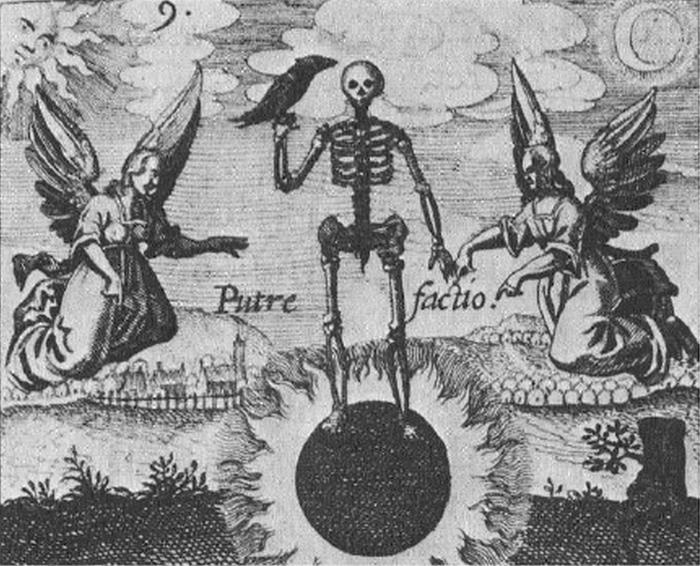 Emblem numbered 9 and captioned 'Putrefactio.' from J.D. Mylius - Philosophia Reformata. Engraved by Balthazar Schwan. 1622.